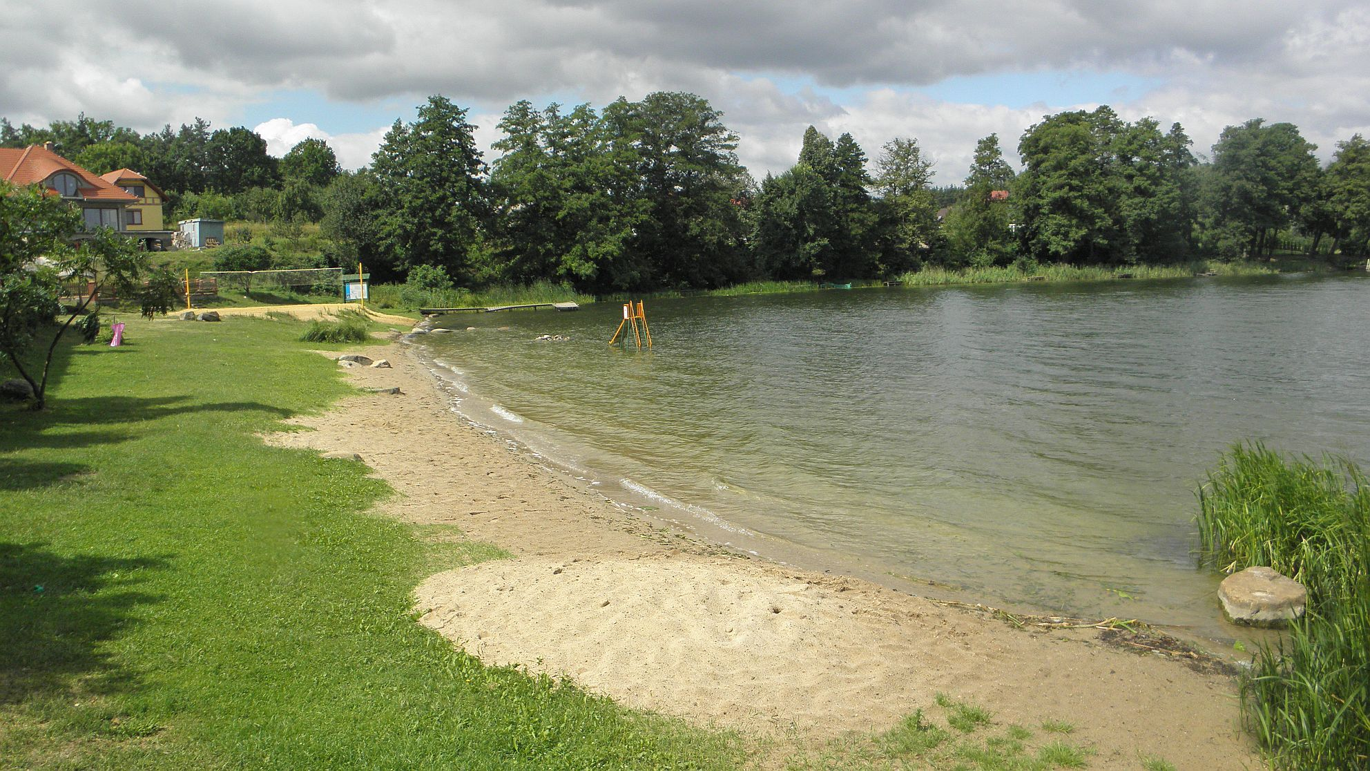 Beach in Nowa Wioska